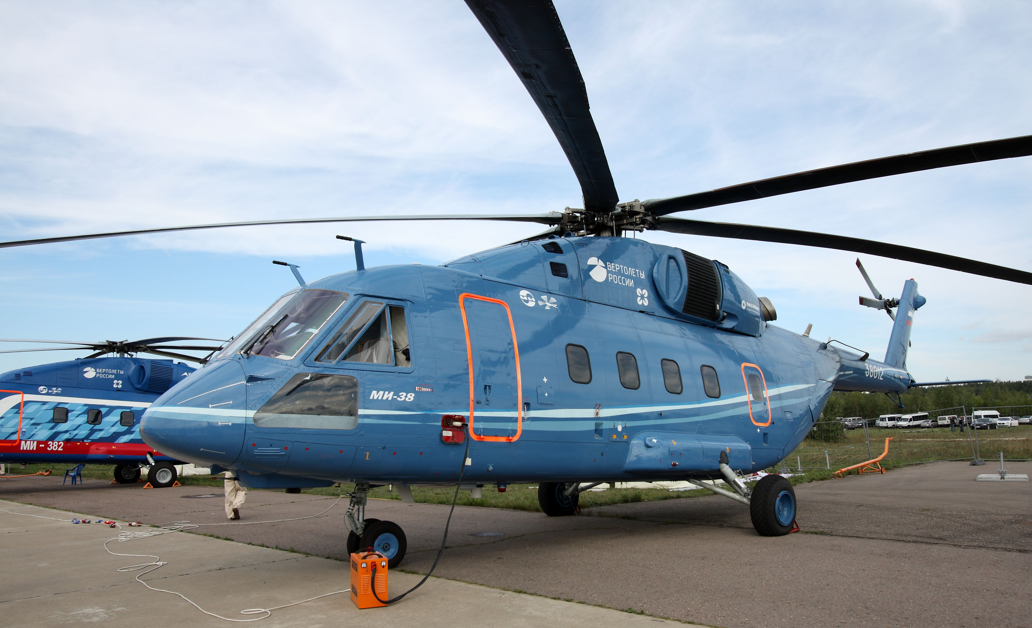 Multipurpose helicopter Mil Mi-38 (The international aerospace salon MAKS-2011)